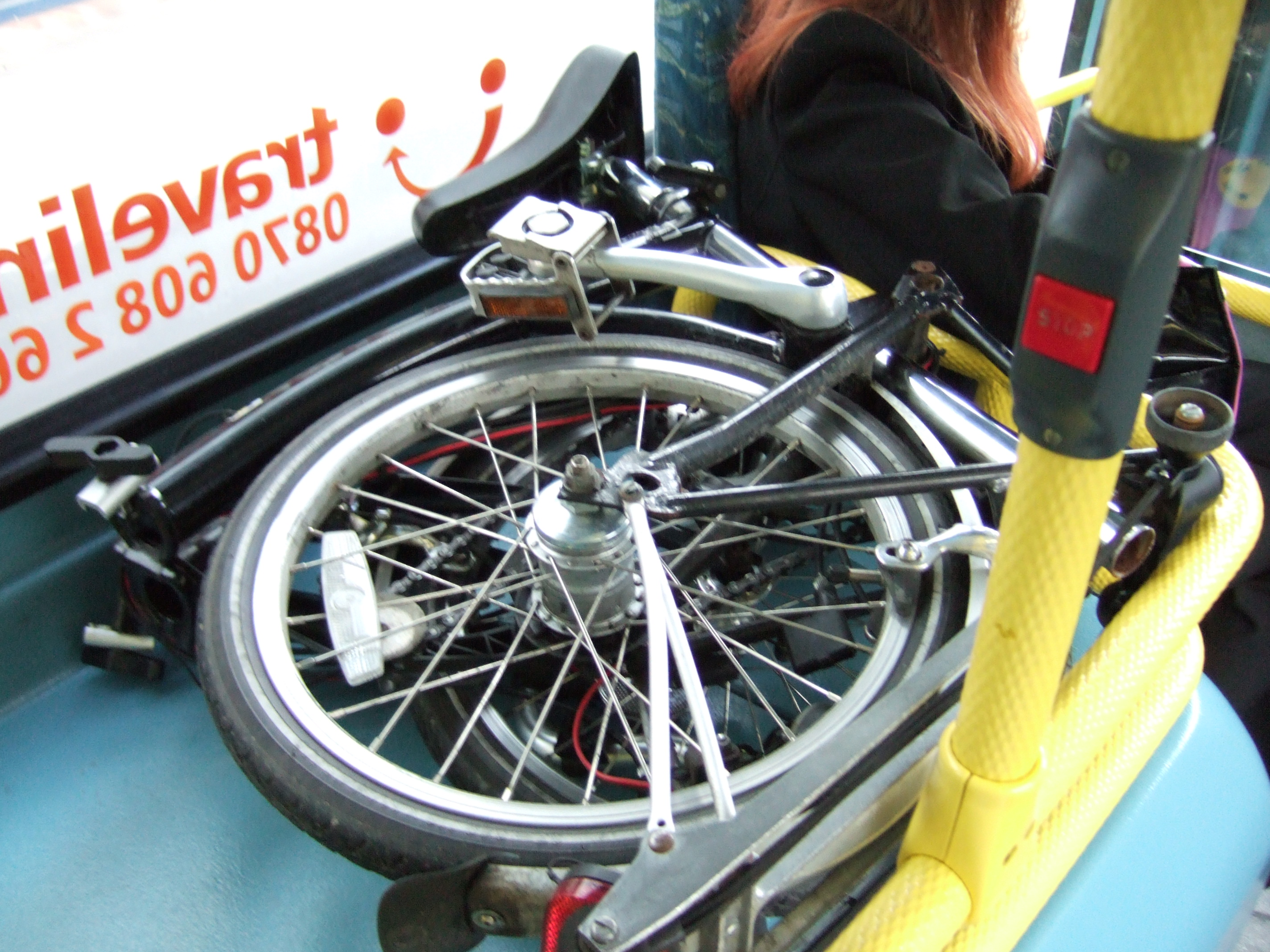 Folded Brompton Bicycle on a bus in the United Kingdom.